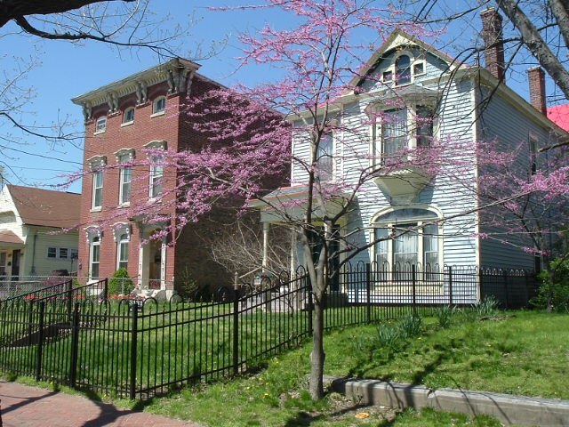 Northwestern Pky